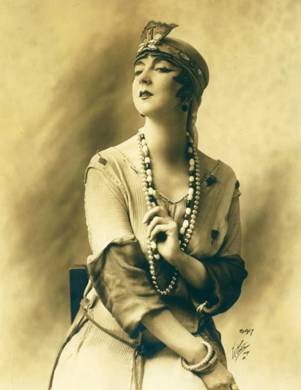 Digital ID: DEN_0460V. White Studio (New York, N.Y.) -- Photographer. 1917 Notes: National Endowment for the Arts Millennium Project. Source: Denishawn Collection (more info) Repository: The New York Public Library. The New York Public Library for the Performing Arts. Jerome Robbins Dance Division. See more information about this image and others at NYPL Digital Gallery. Persistent URL: ; may be subject to third party rights (for more information, click here)